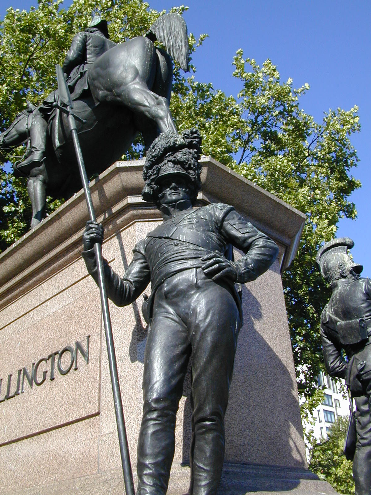 Robert Olford photographing royal Welsh fusilier as part of a monument to the Duke of Wellington.